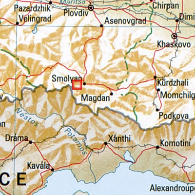 location of Goljam Perelik in Bulgaria